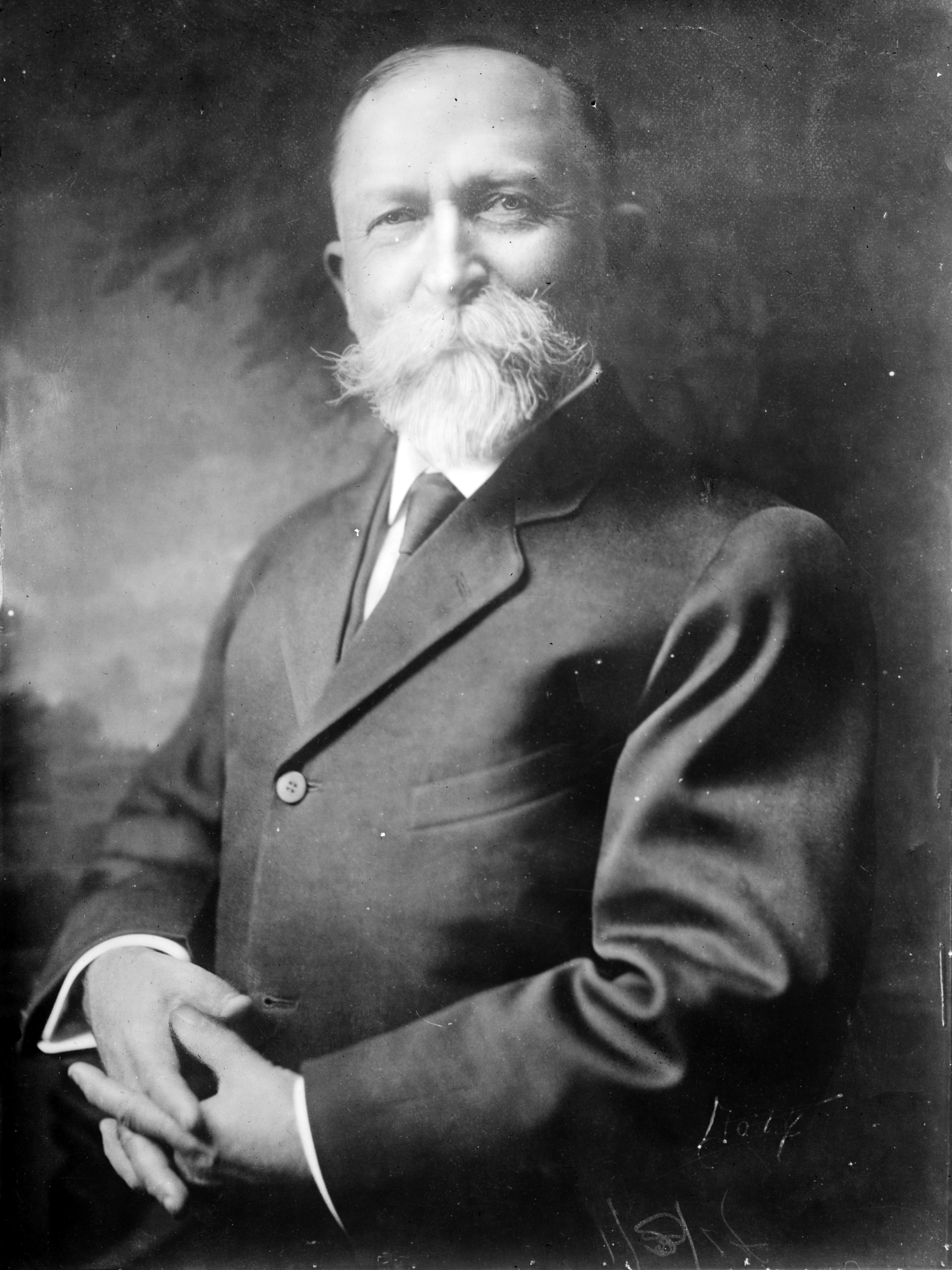 John Harvey Kellogg, co-founder of the Kellogg Company